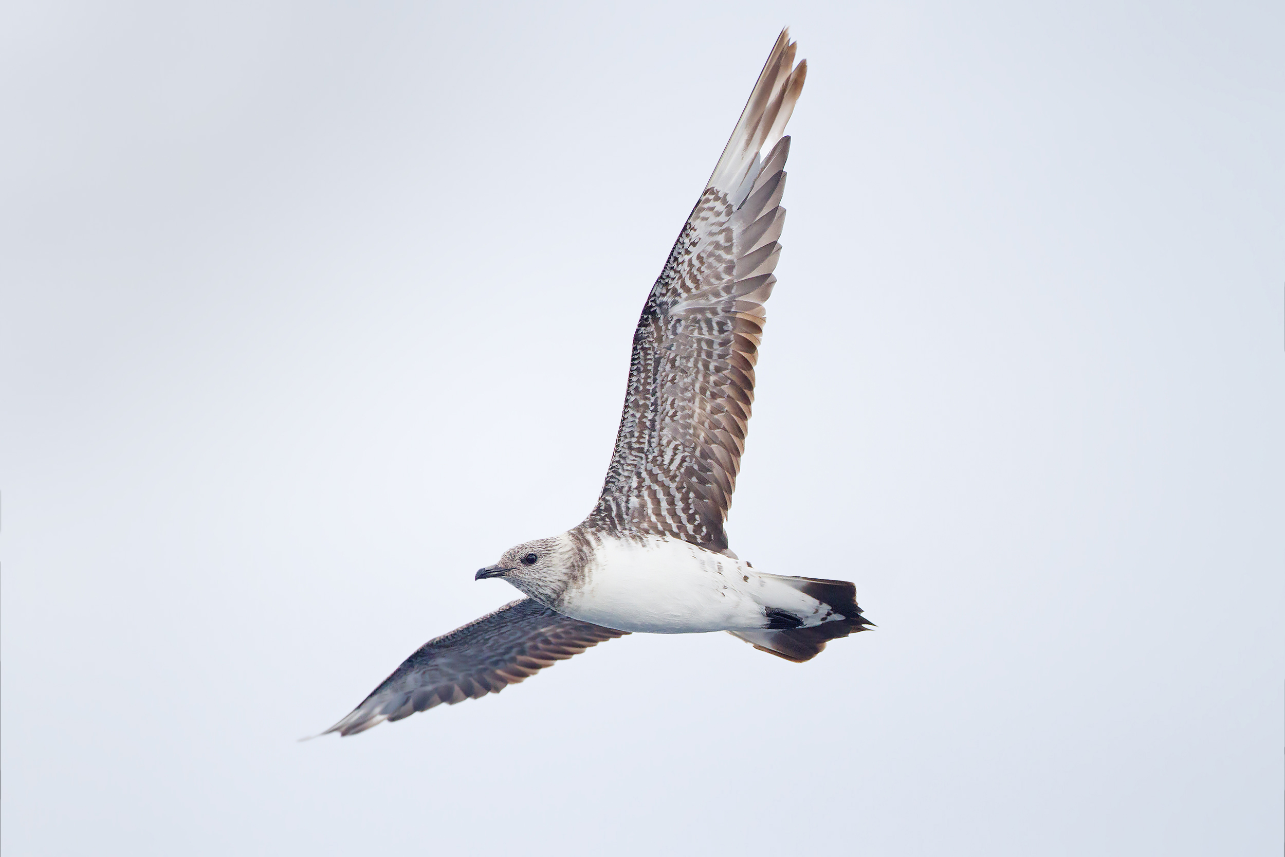 An immature Long-tailed Jaeger (Stercorarius longicaudus) flying East of the Tasman Peninsula, Tasmania, Australia.